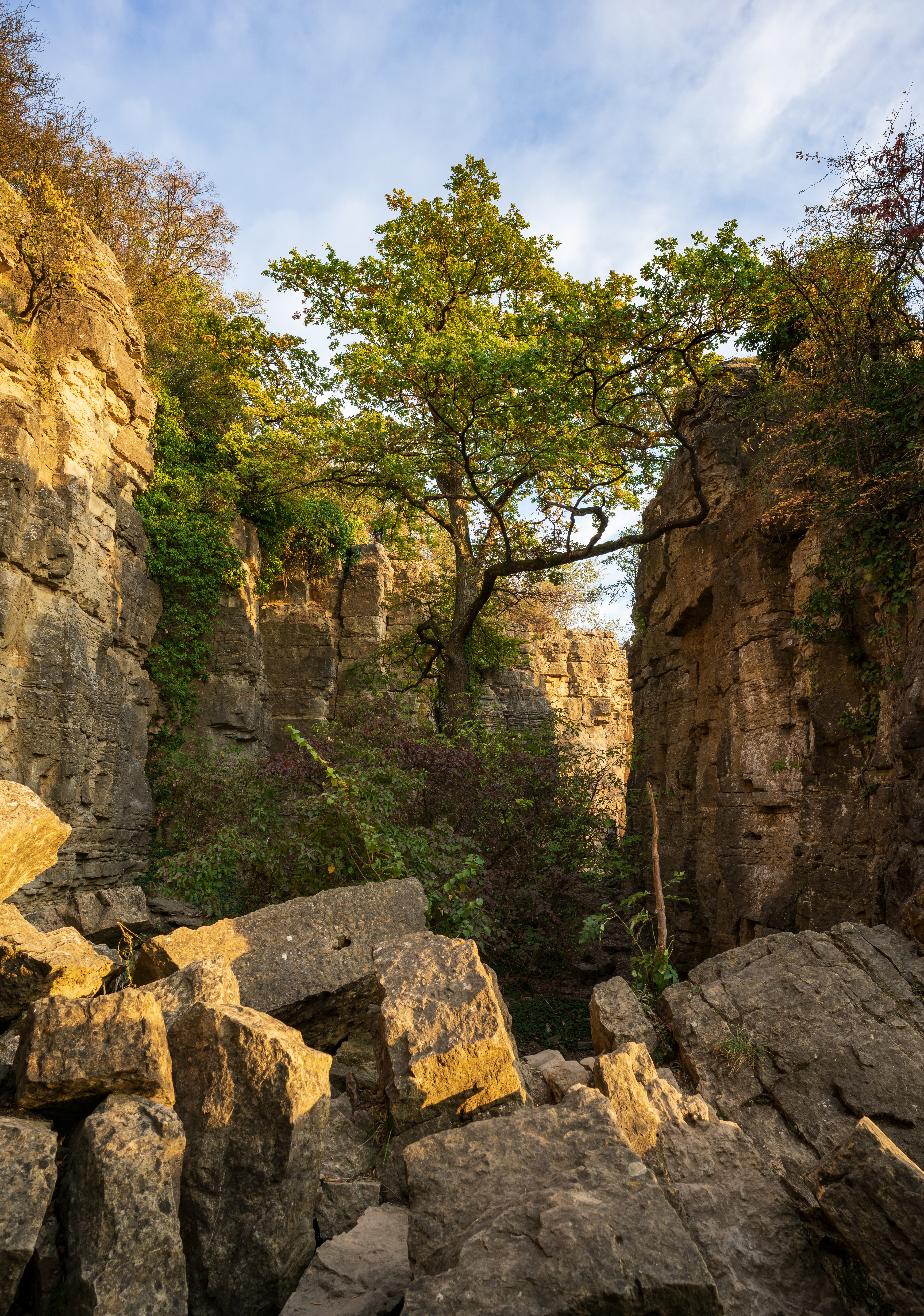 Gorge in the Hessigheimer Felsengärten, a nature reserve near Hessigheim, Germany (WDPA-ID 318536). At the widest point of the small gorge, which separates the slope (left) from the rocks in front of it (right), there are wildly piled boulders; behind of them an old oak tree grows towards the sky.The Hessigheimer Felsengärten are a popular destination for climbers, so some people are visible in the picture (I made sure that nobody is identifiable). Evening light on an autumn evening, hence the warm colours.